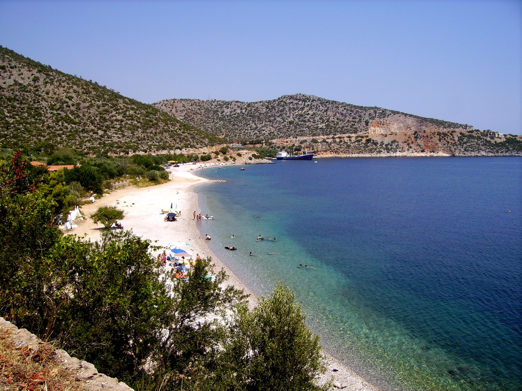 Krioneri beach at Agios Andreas, Voria Kynouria, Arcadia, Greece